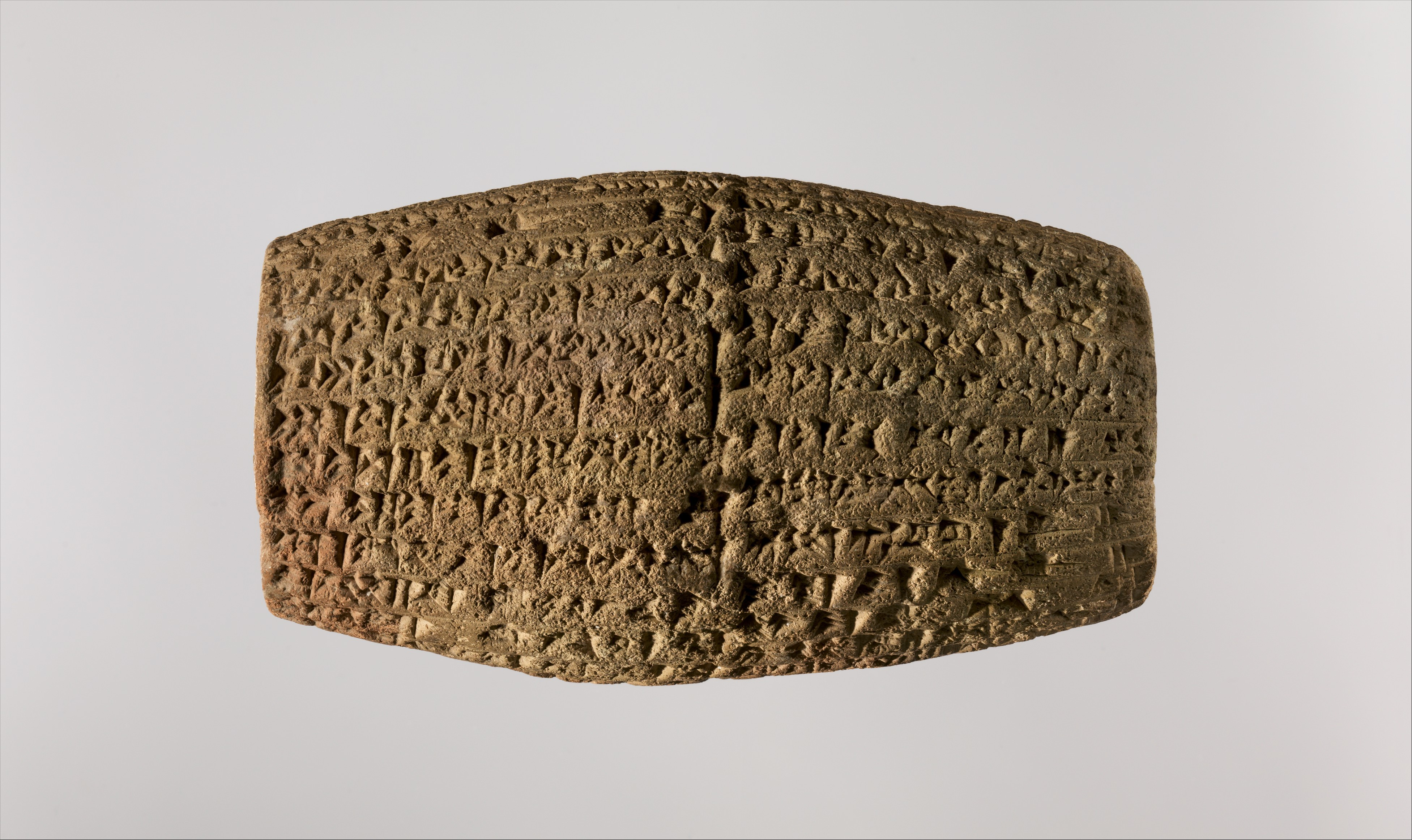 Babylonian; Cuneiform cylinder; Clay-Tablets-Inscribed